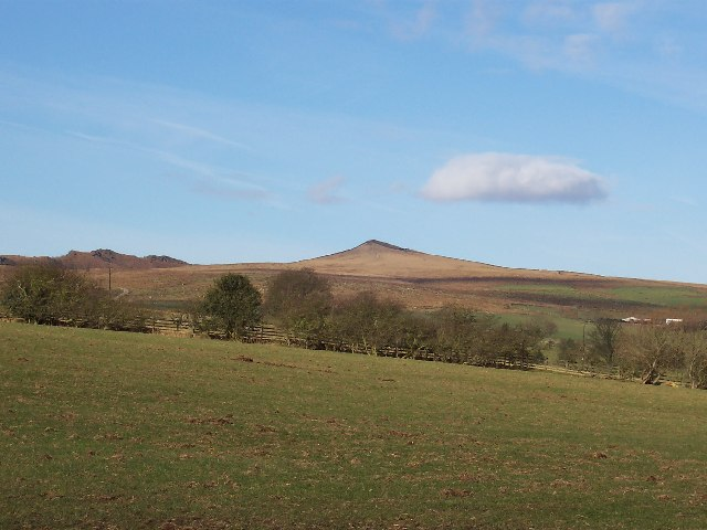 Sharp Haw. Loftiest and most distinct of the Flasby Fells, to the North West of Skipton